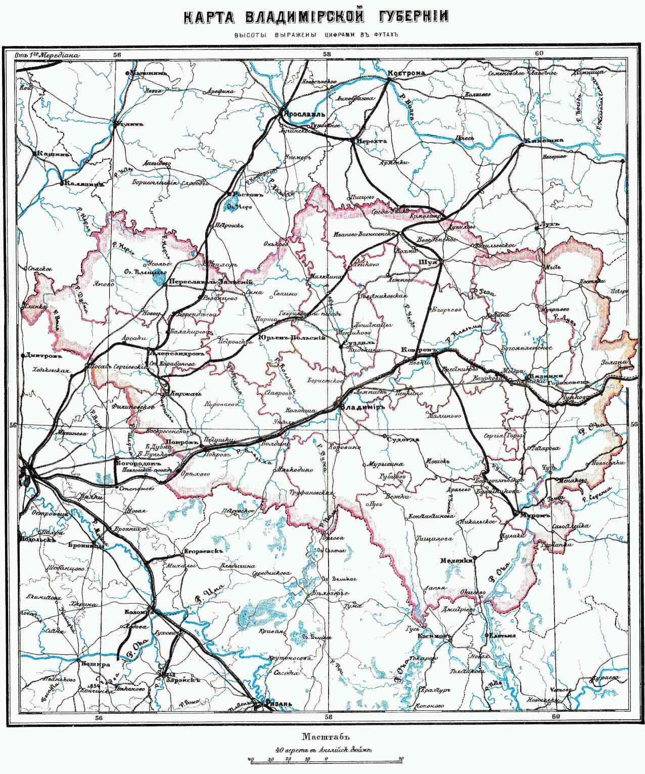 Vladimir Governorate map (late XIX century)